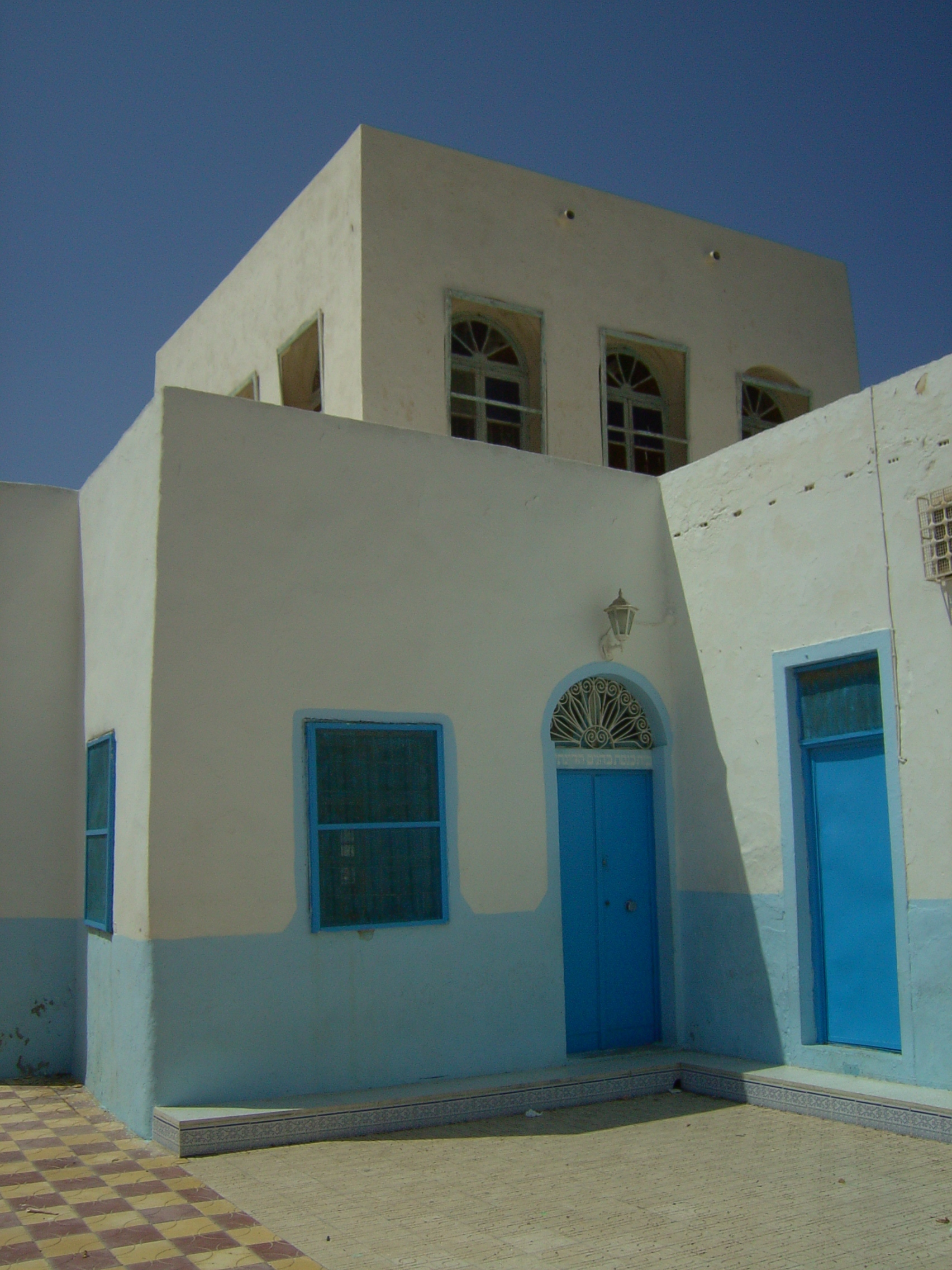 Beit Knesset Kohanim HaDintreisa, a synagogue located in Hara Kabira on the Tunisian island of Djerba.